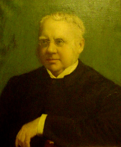 James Clarke, 13th October 2006. Portrait of William Fiddian Moulton, currently hanging in the Vestry of the Moulton Memorial Chapel in the Leys School, Cambridge, UK. This photo of the portrait was taken on the occasion of the centennial commemorations of the Chapel. William is my great great great grandfather.